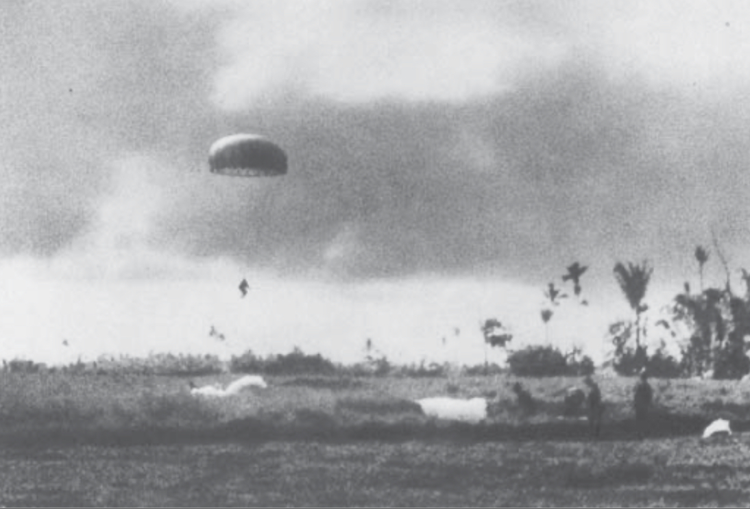 Japanese paras landing on Langoan Airfield, January 1942